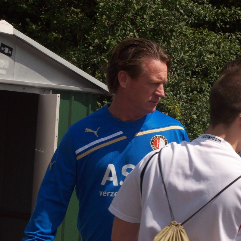 Mario Been seizoen 2011/2012